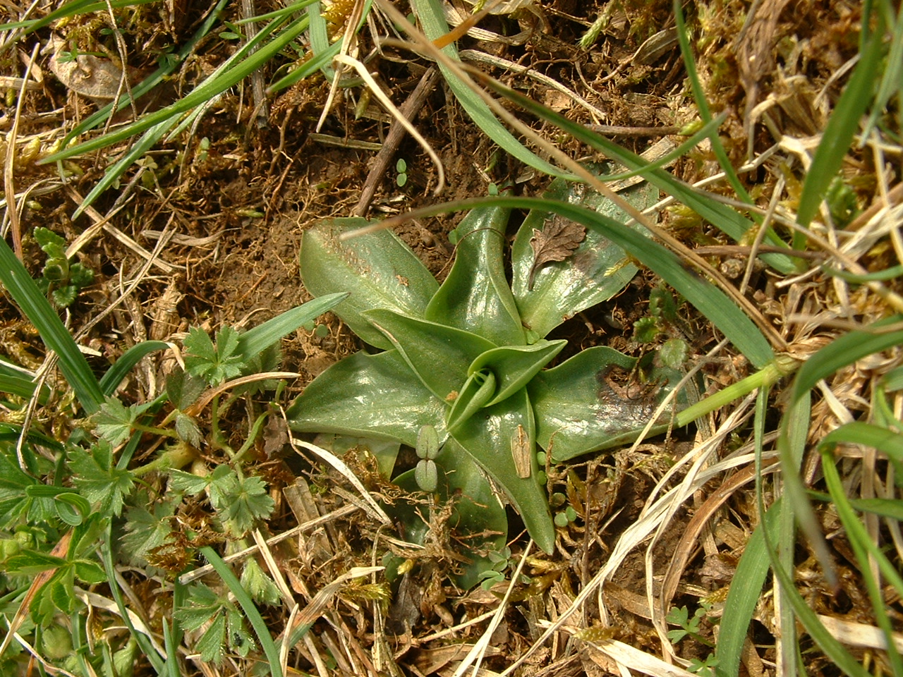 Spiranthes spiralis photo by Jeffdelonge GY 70700 France avril 2006